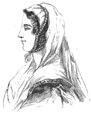 This image is a screenshot of an image from an archived book published in 1855. (1855) Woman's record; or, Sketches of all distinguished women from the creation to A.D. 1854: Arranged in four eras, with selections from female writers of every age., History of women (microfilm), reel 264, no. 1780. (2nd ed.), Category:New York: Harper & Bros., pp. 145-146. Archived from the original on July 28,2009. Retrieved on November 20,2010. OCLC: 15596702.